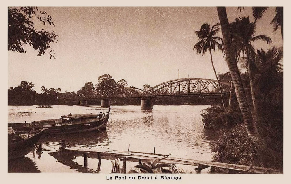 Ghềnh Bridge in Biên Hòa, Việt Nam early 20th Century